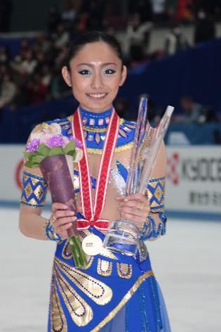 Miki Ando at 2009 NHK Trophy.